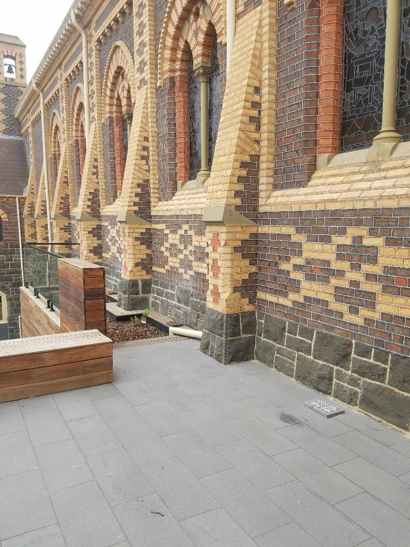 St Judes carlton exterior